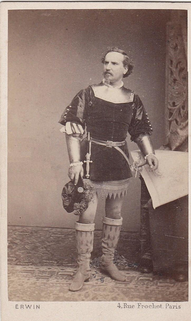 Creator of the role of Vasco da Gama in Meyerbeer's opera "L'Africaine", 1865